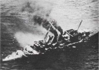 Burning and sinking British heavy cruiser HMS Cornwall following Japanese bombers attacks, Indian Ocean, 5 April 1942. Photographed from a Japanese aircraft.